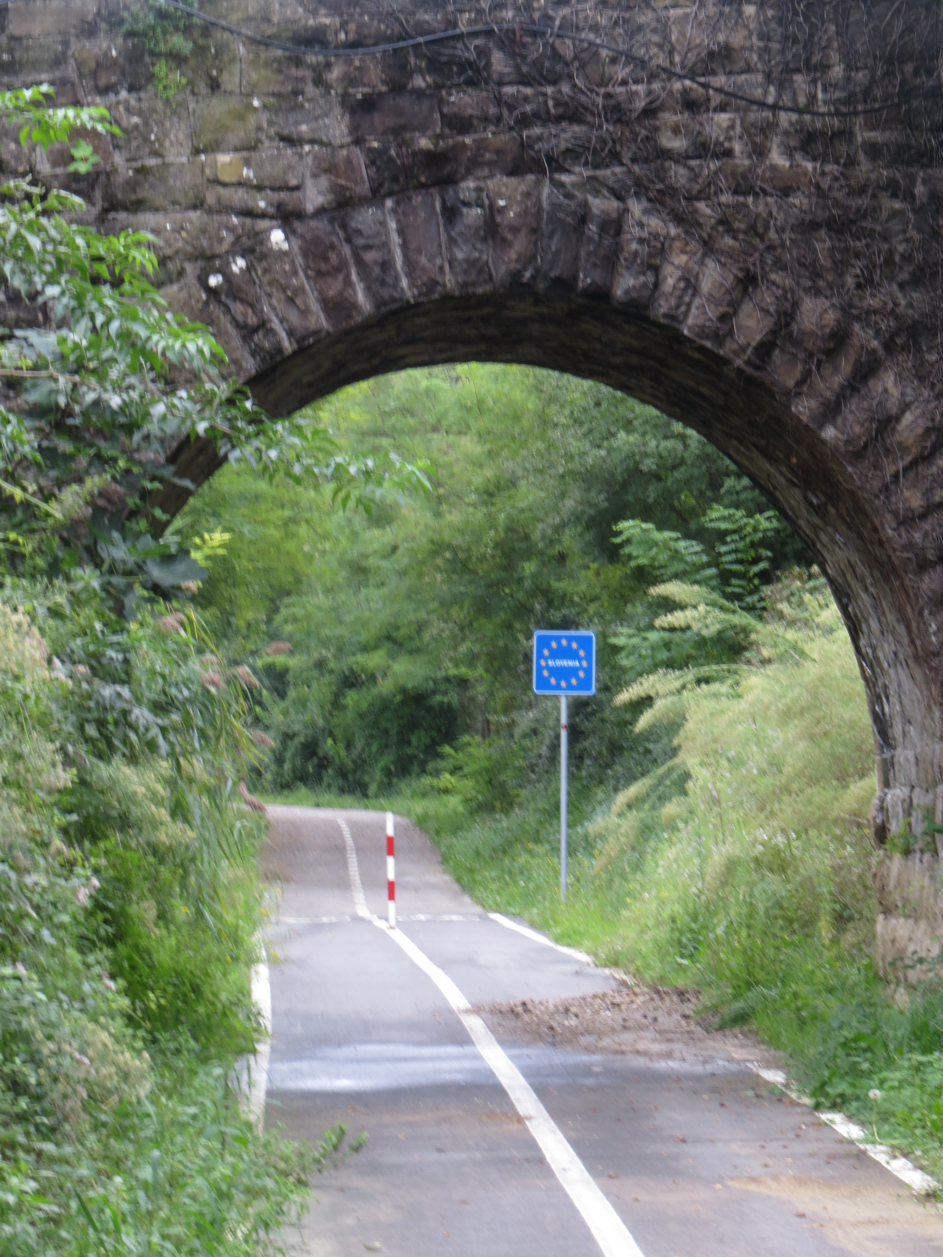 D-8 to Koper